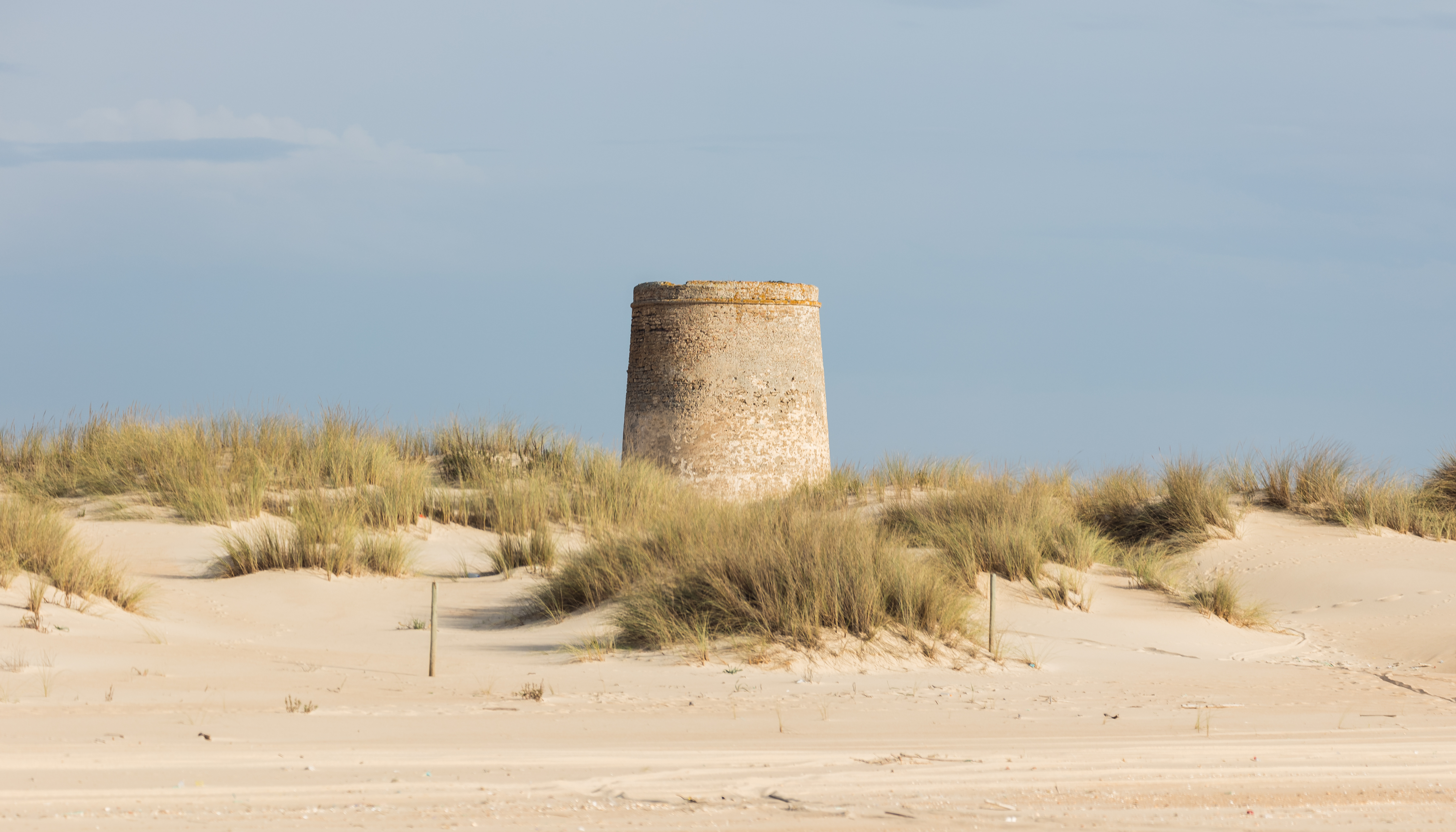 Tower of La Carbonera, Parque de Doñana, Huelva, Spain